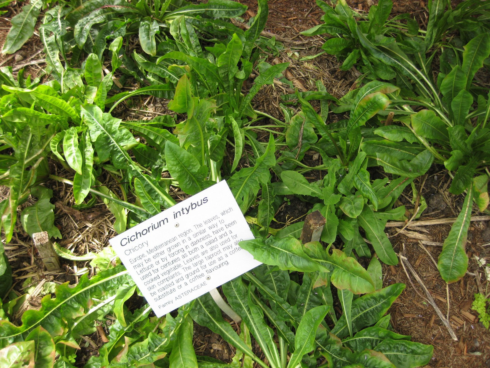 Photographed at the Royal Botanic Gardens Sydney (Australia) in January